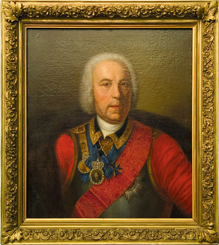 Georg Wilhelm de Gennin. Copied from image:Gennin.jpg with description: Meer dan 70 jaar oud